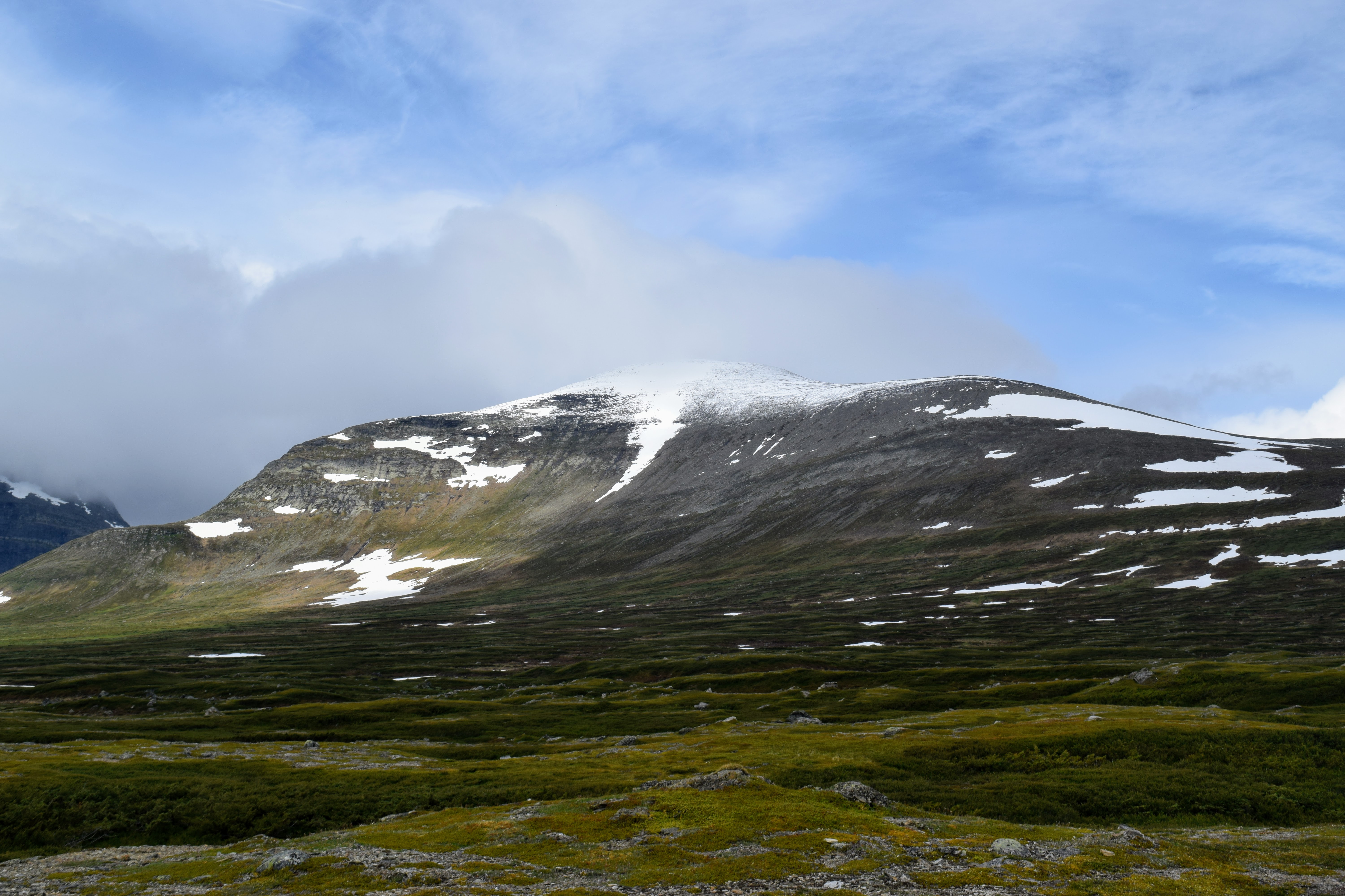 A view of Mt. Helags in Sweden's Härjedalen. July 2020